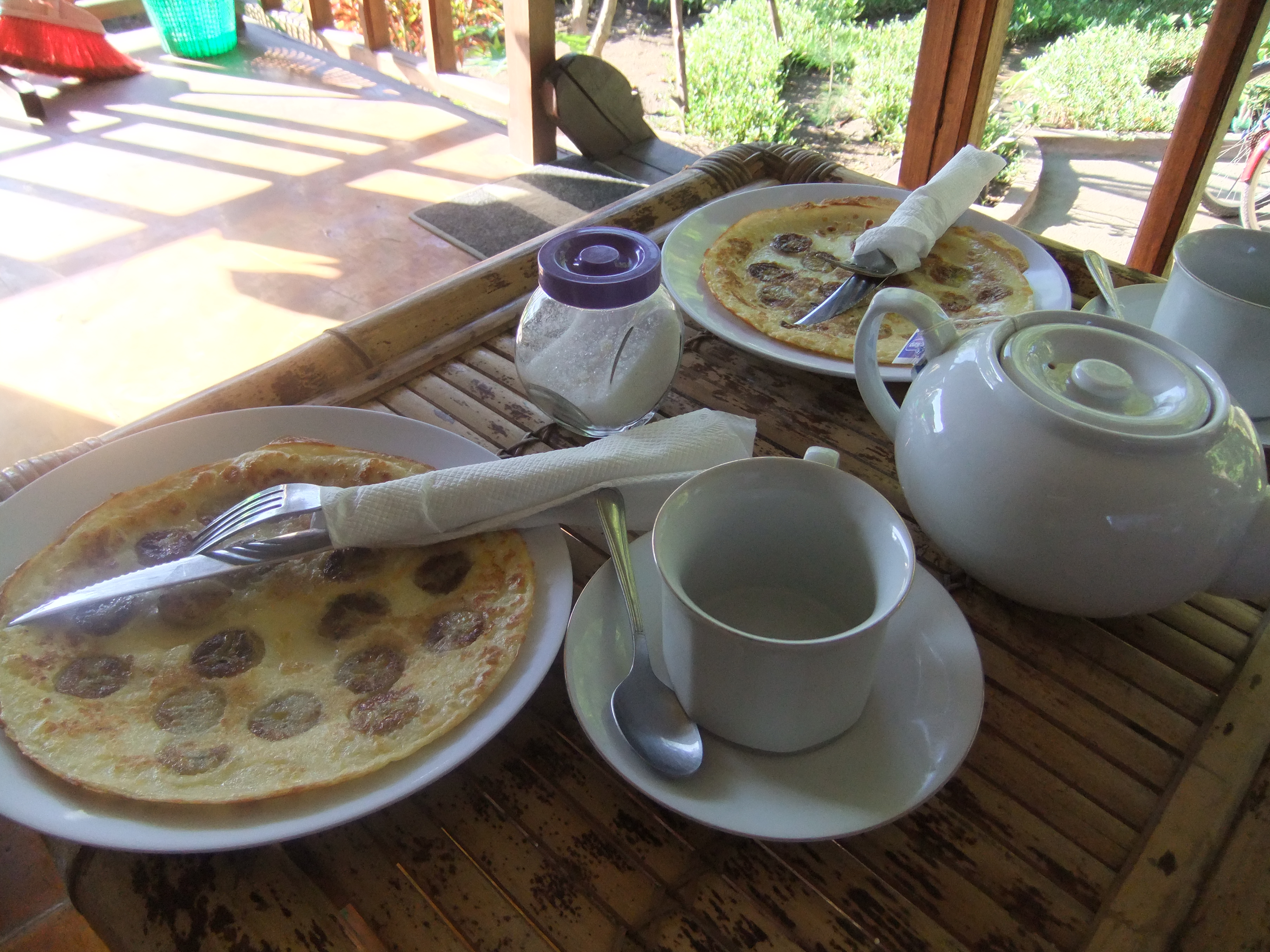 Banana Pancakes. Gili Trawangan, Indonesia.